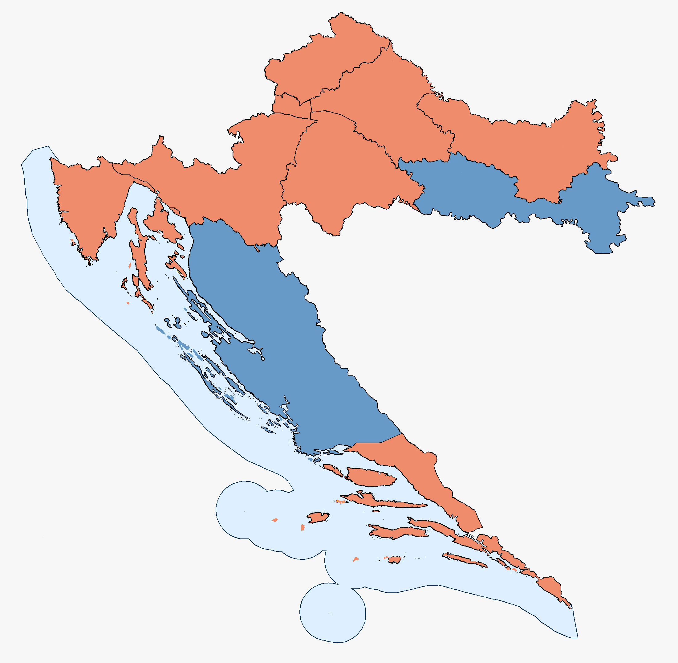 The results of the Croatian parliamentary election held on 4 December 2011, by electoral districts.